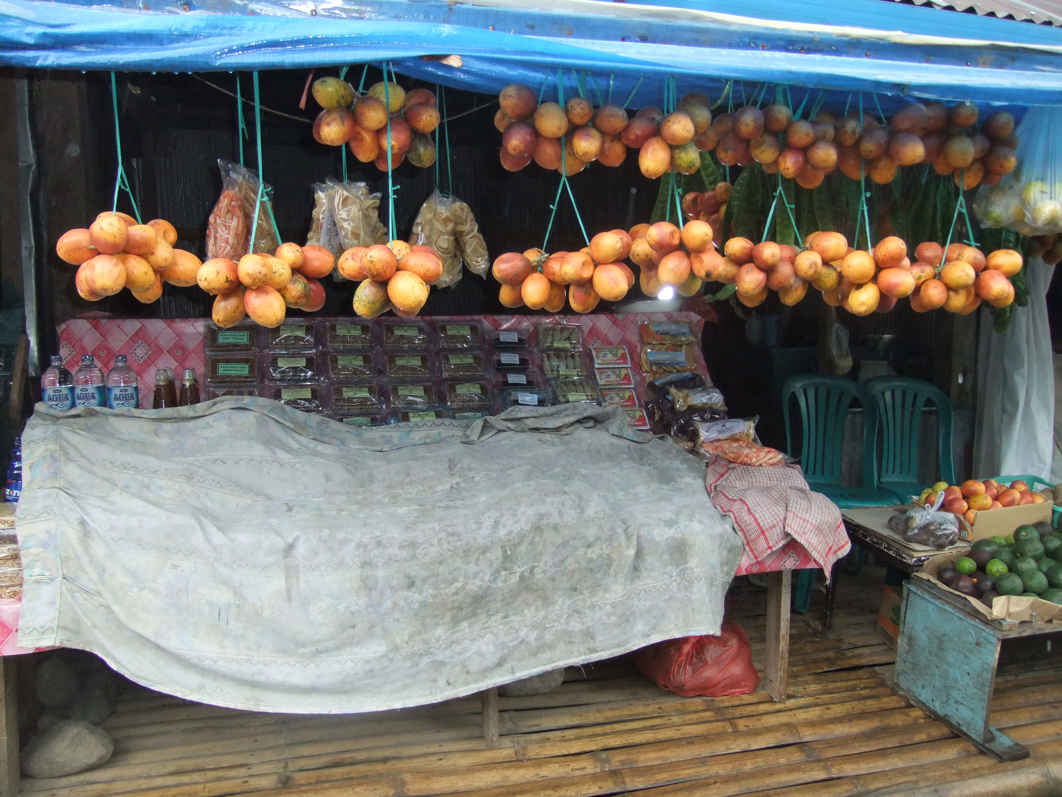 Passion fruit in Malino, Gowa Regency, South Sulawesi